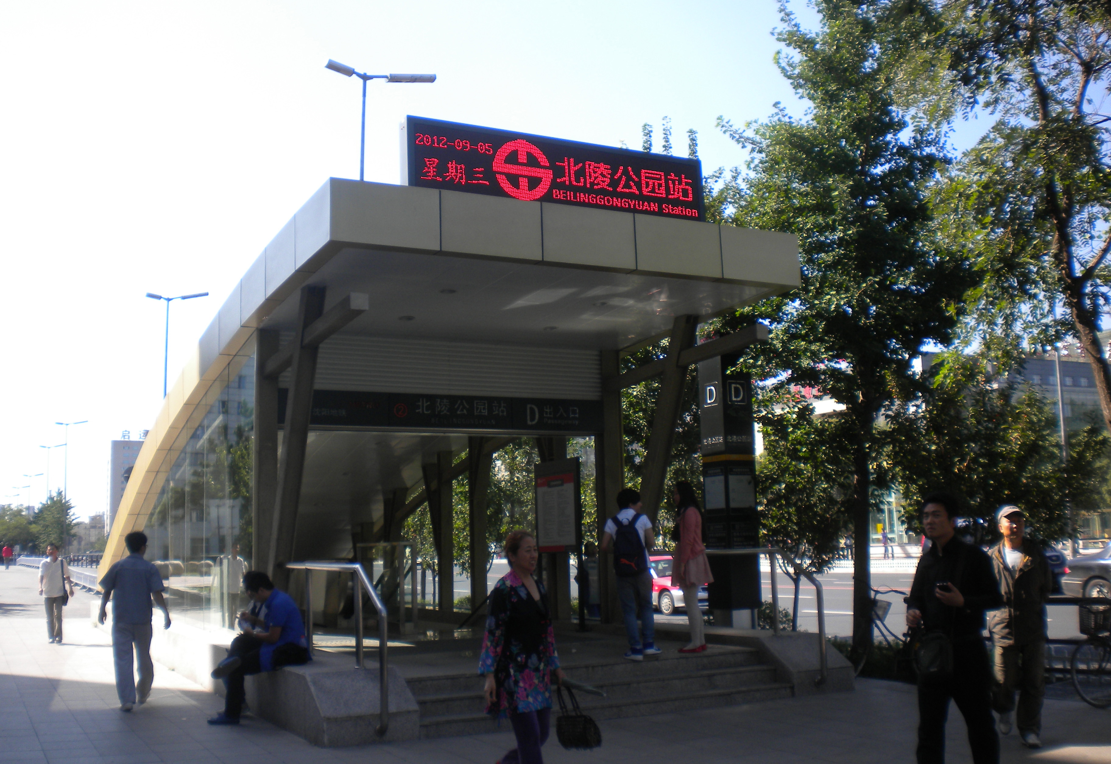 Passageway D of Beiling Gongyuan Station in Line 2 of Shenyang Metro.